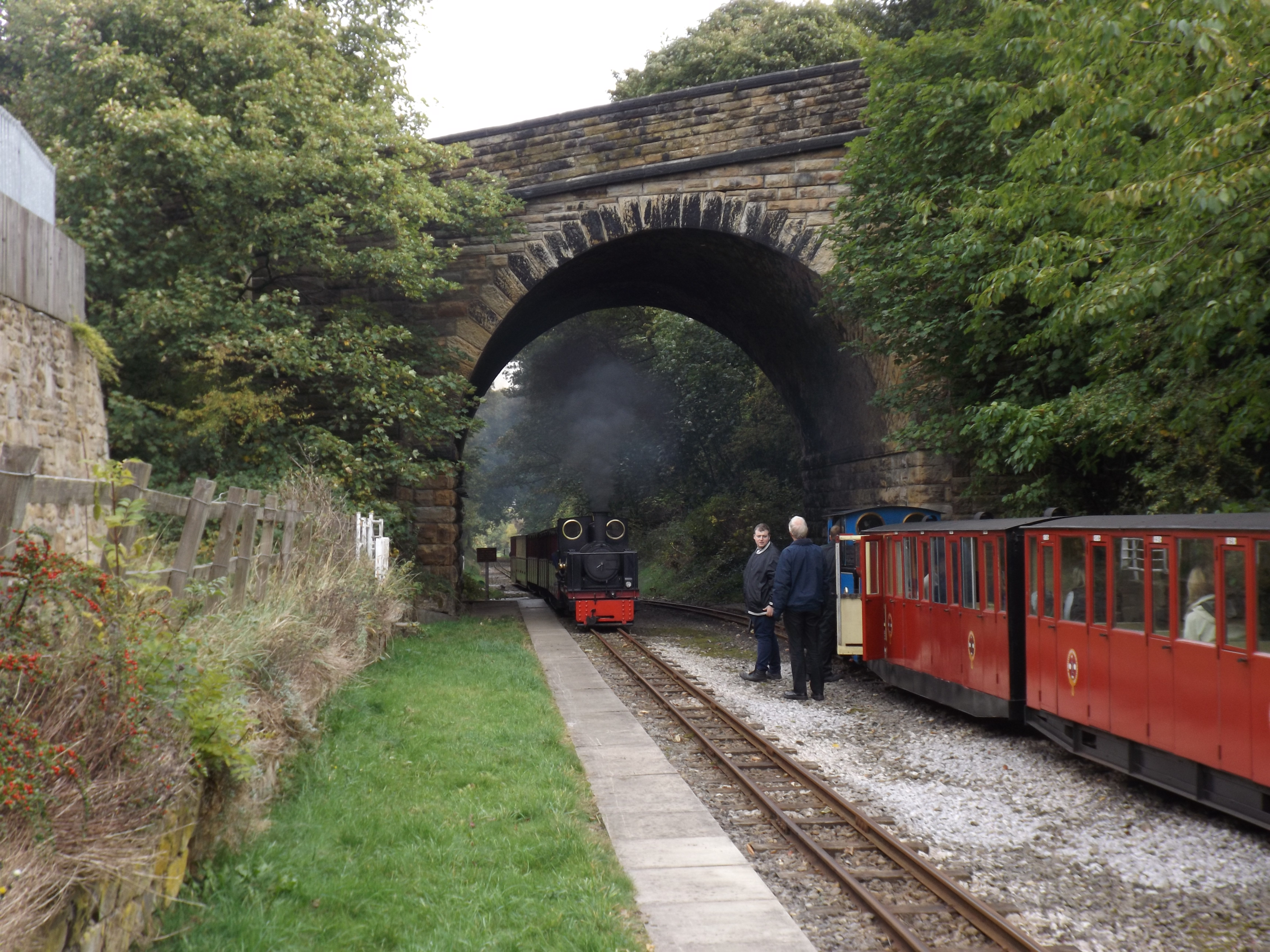 Locomotives "Owl" and "Hawk" at Skelmanthorpe station